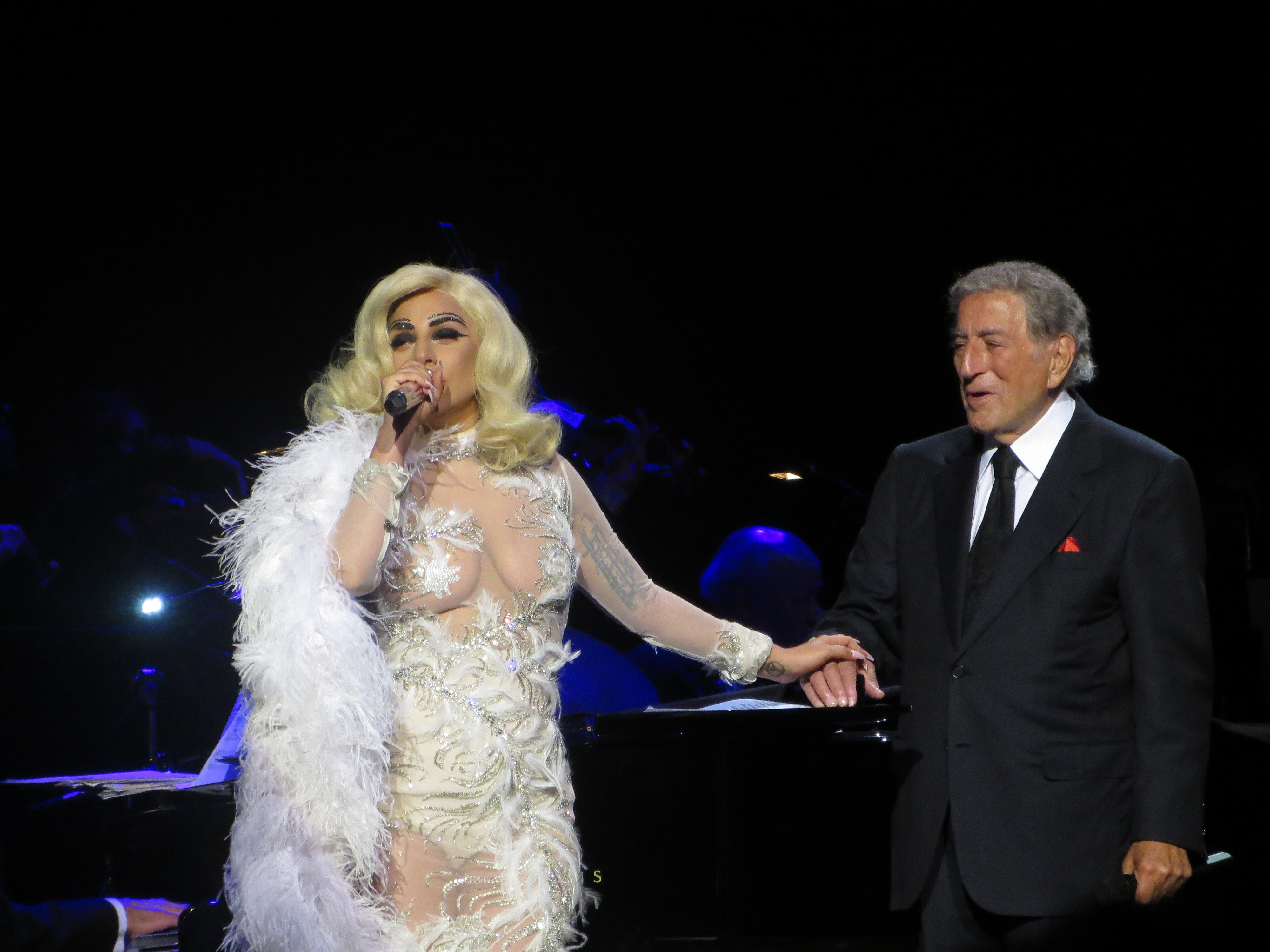 Tony Bennett & Lady GaGa, Cheek to Cheek Tour, London Royal Albert Hall, 8 June 2015.